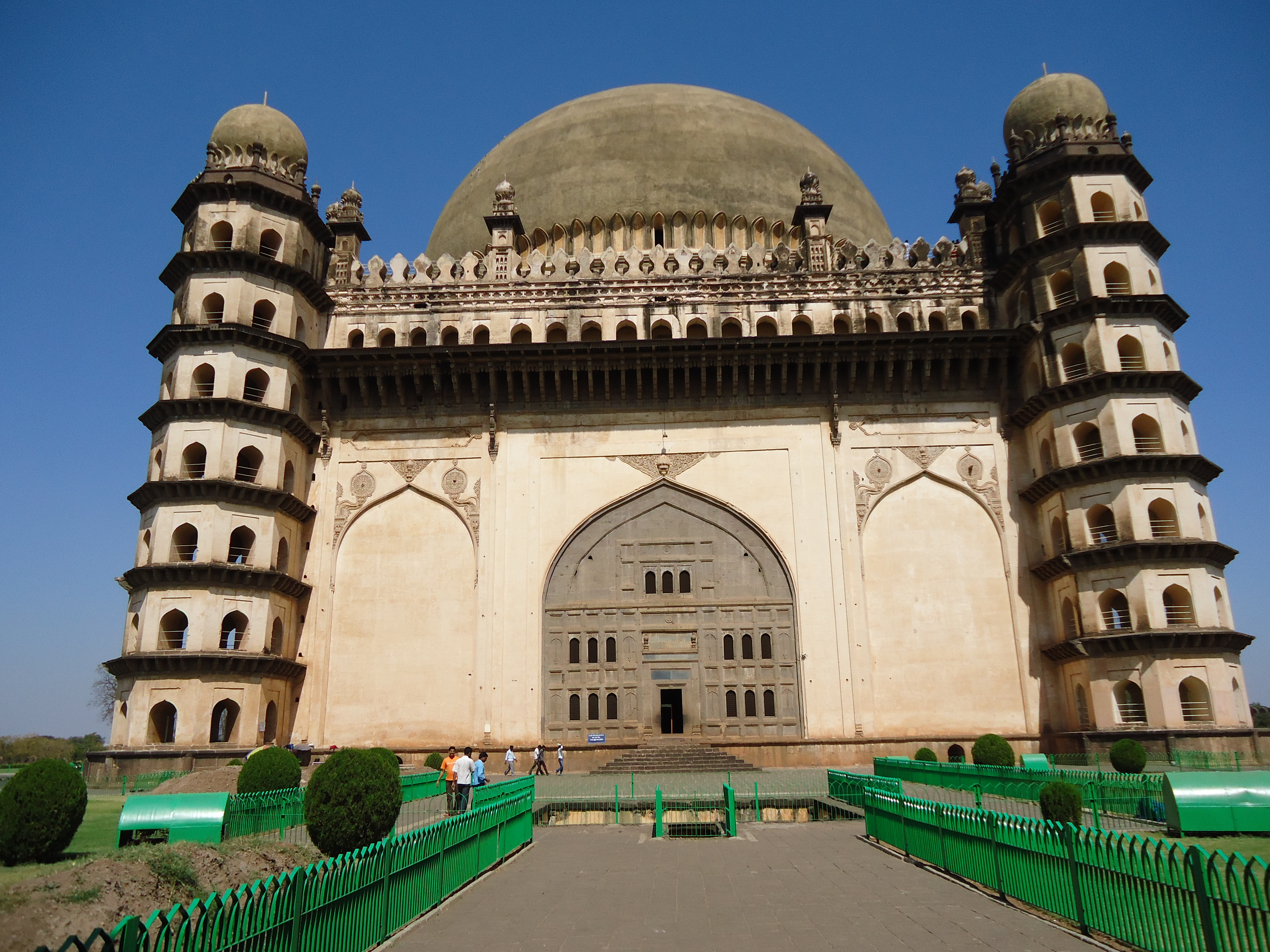 A front view of Gol Gumbaz, Bijapur India.Gol Gumbaz is the mausoleum of Mohammed Adil Shah (1627–55) of the Adil Shahi dynasty of Indian sultans, who ruled the Sultanate of Bijapur from 1490 to 1686.